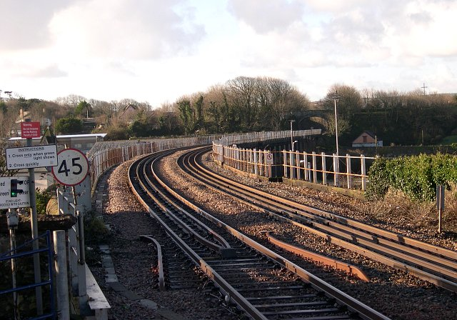 Hayle Viaduct - Topside. This photo was taken from the platform of Hayle Railway Station looking west along the top of the viaduct. Below is the valley with Hayle town centre and a large roundabout full of traffic.